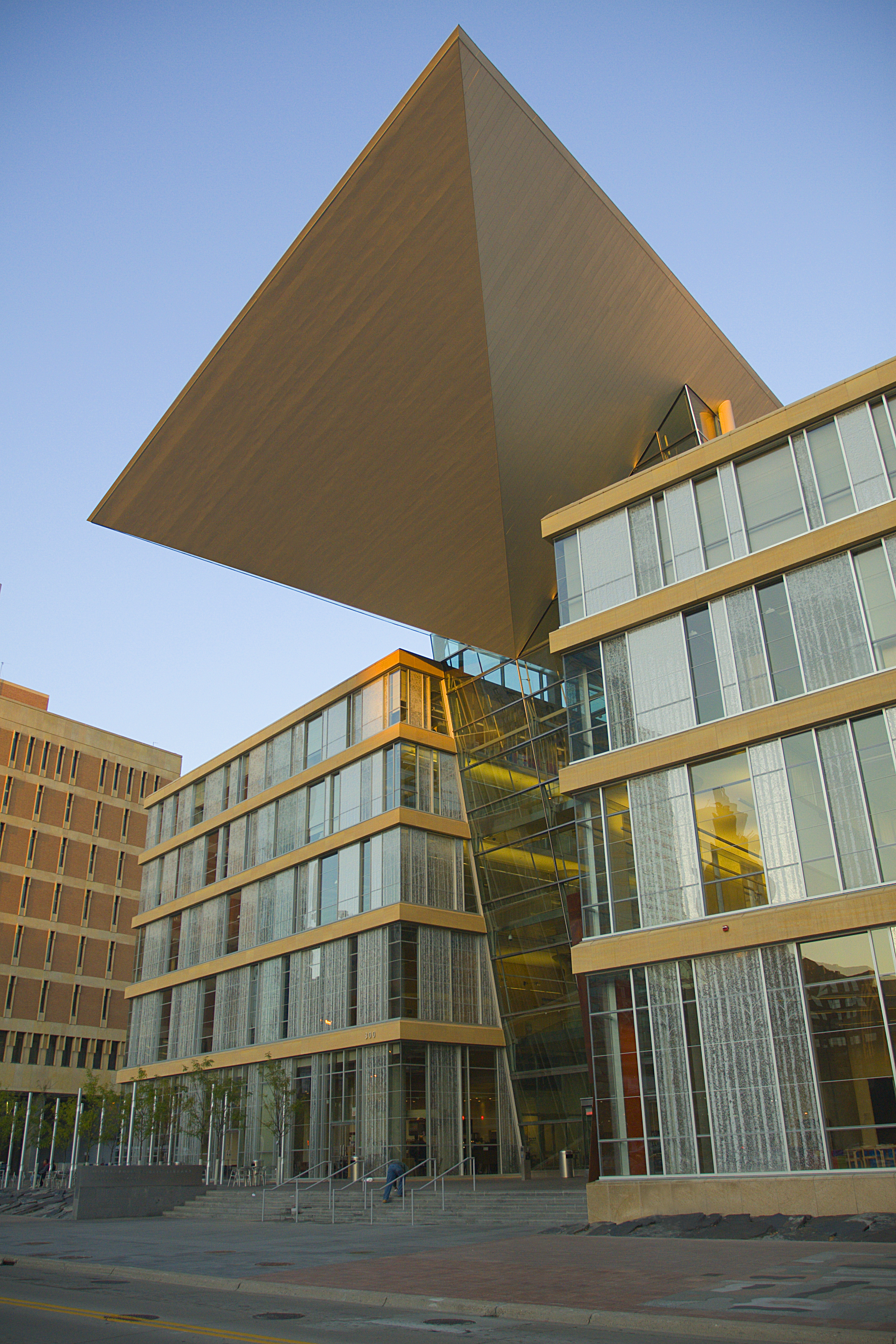 Minneapolis Public Library, Minneapolis, Minnesota